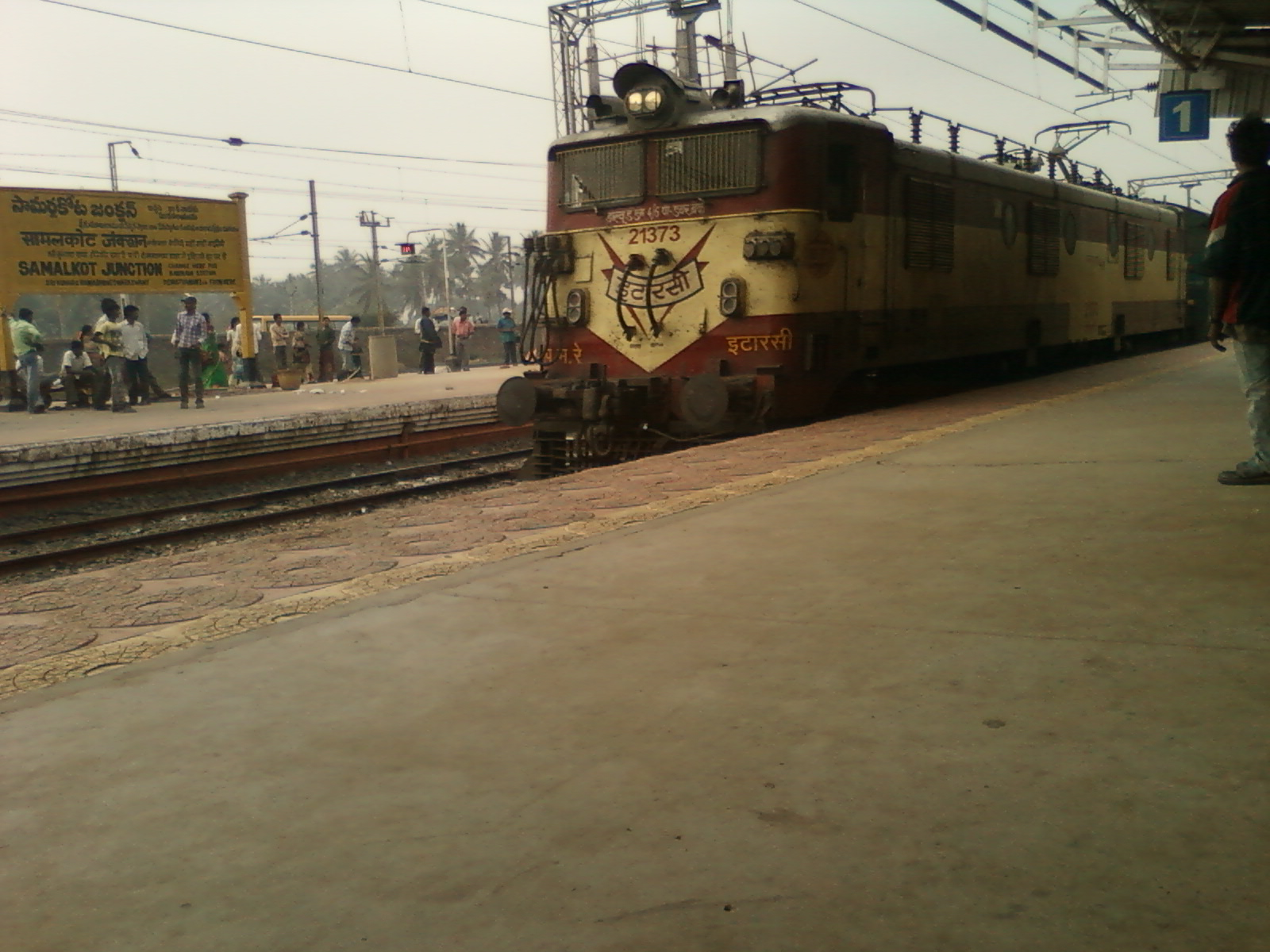 WAM 4 series loco bringing in the Nanded-VSKP Express at Samarlkot Junction, East Godavari district